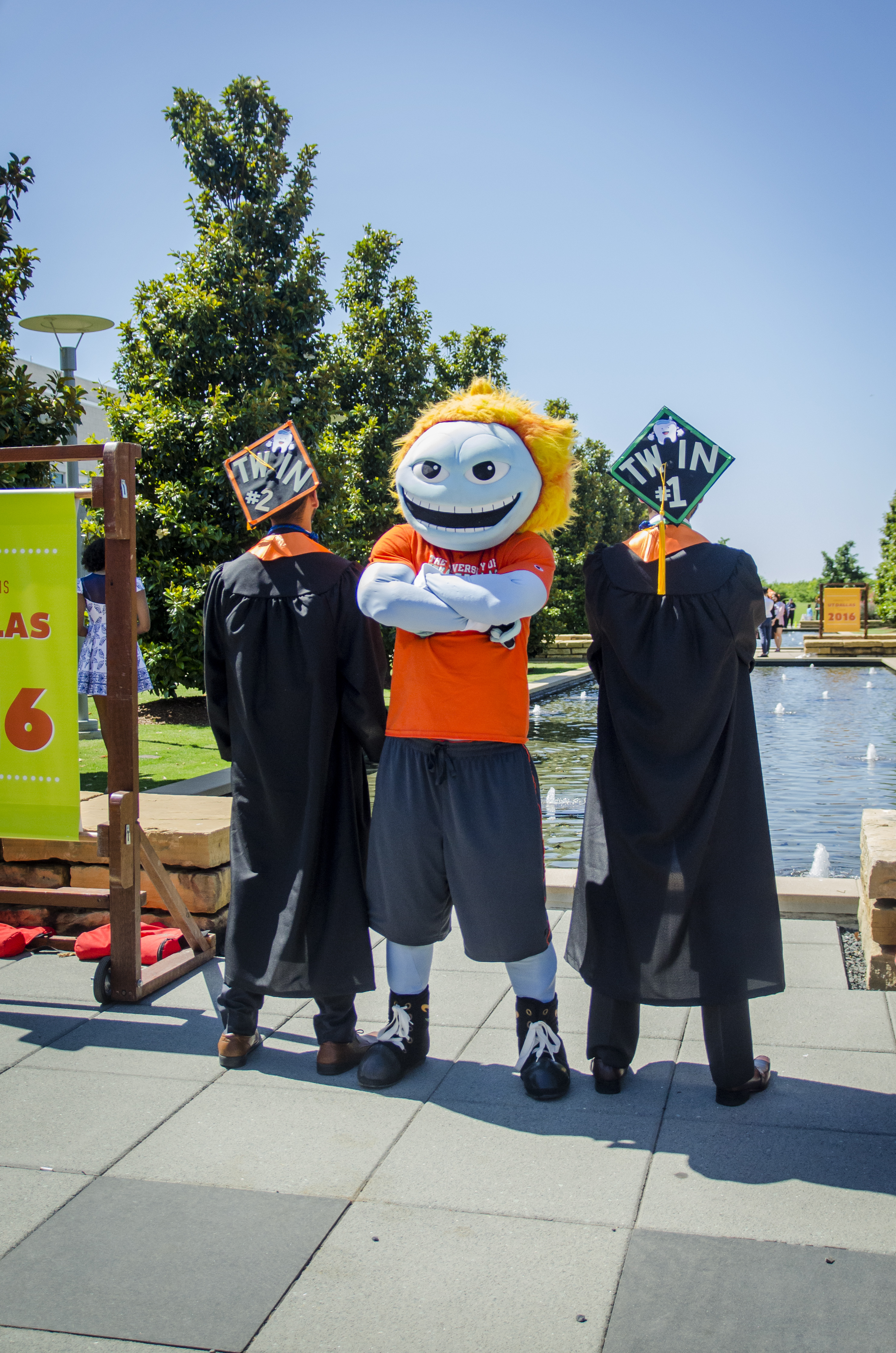 Temoc, UT Dallas's mascot, poses with two students immediately following their graduation ceremony.